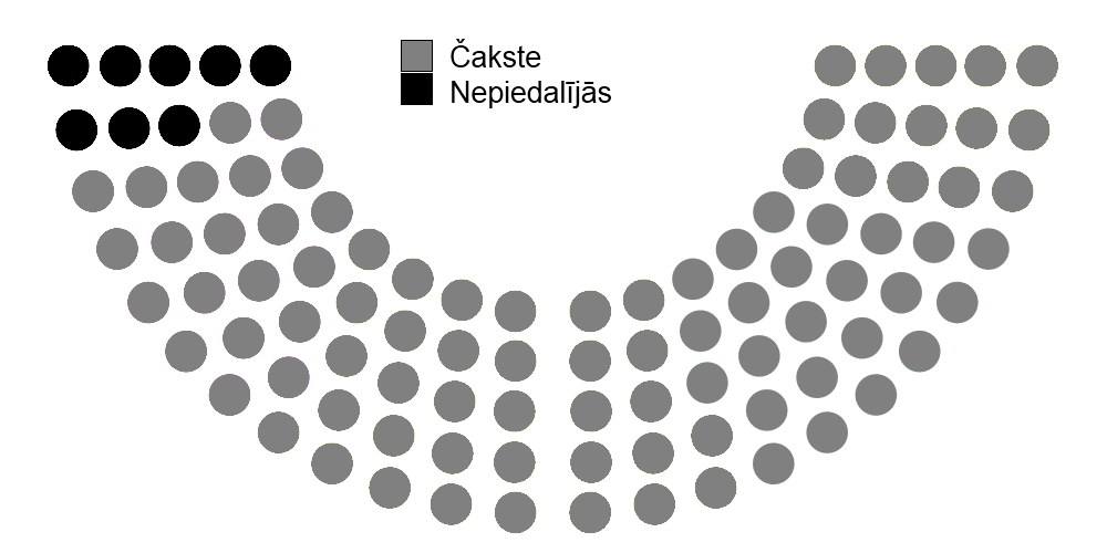 Graph showing the Saeima voting in Latvian presidential election, 1922.